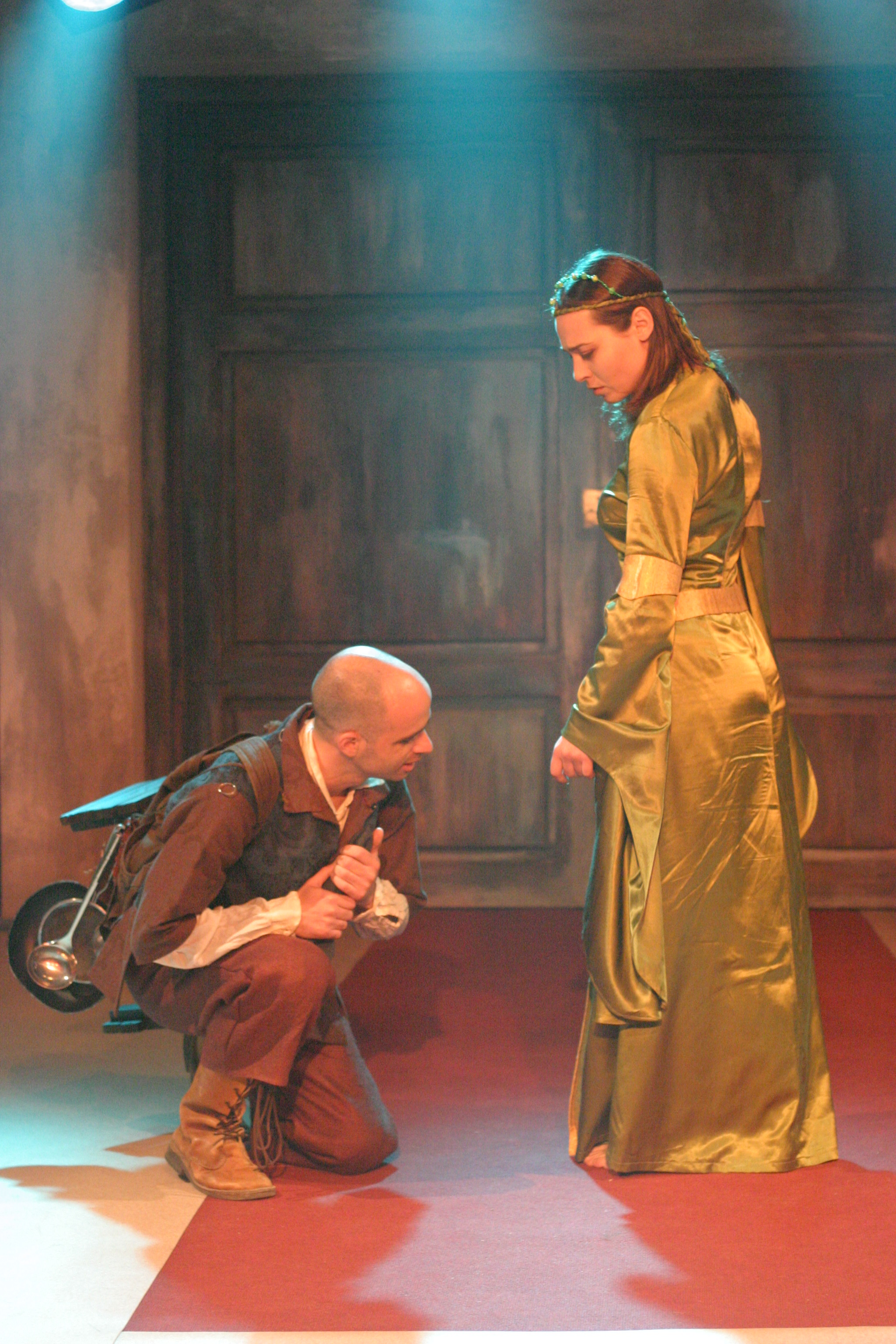 Mira Awad & Ariel Di Castro in "The Queen & the Soldier", directed by Ziv Voloshin in The Arab-Hebrew Theater.